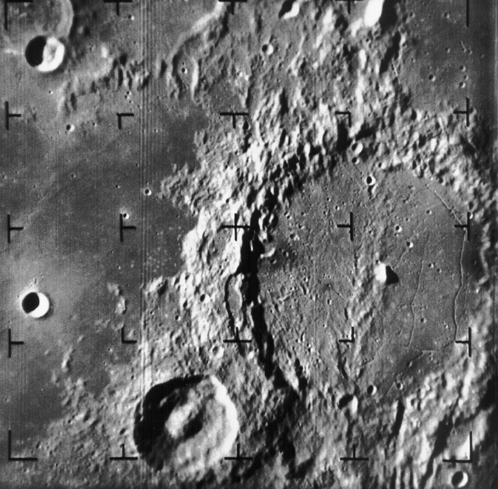 Alphonsus crater on the Moon.